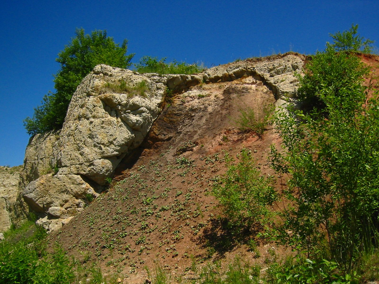 Hainsfarth, Germany